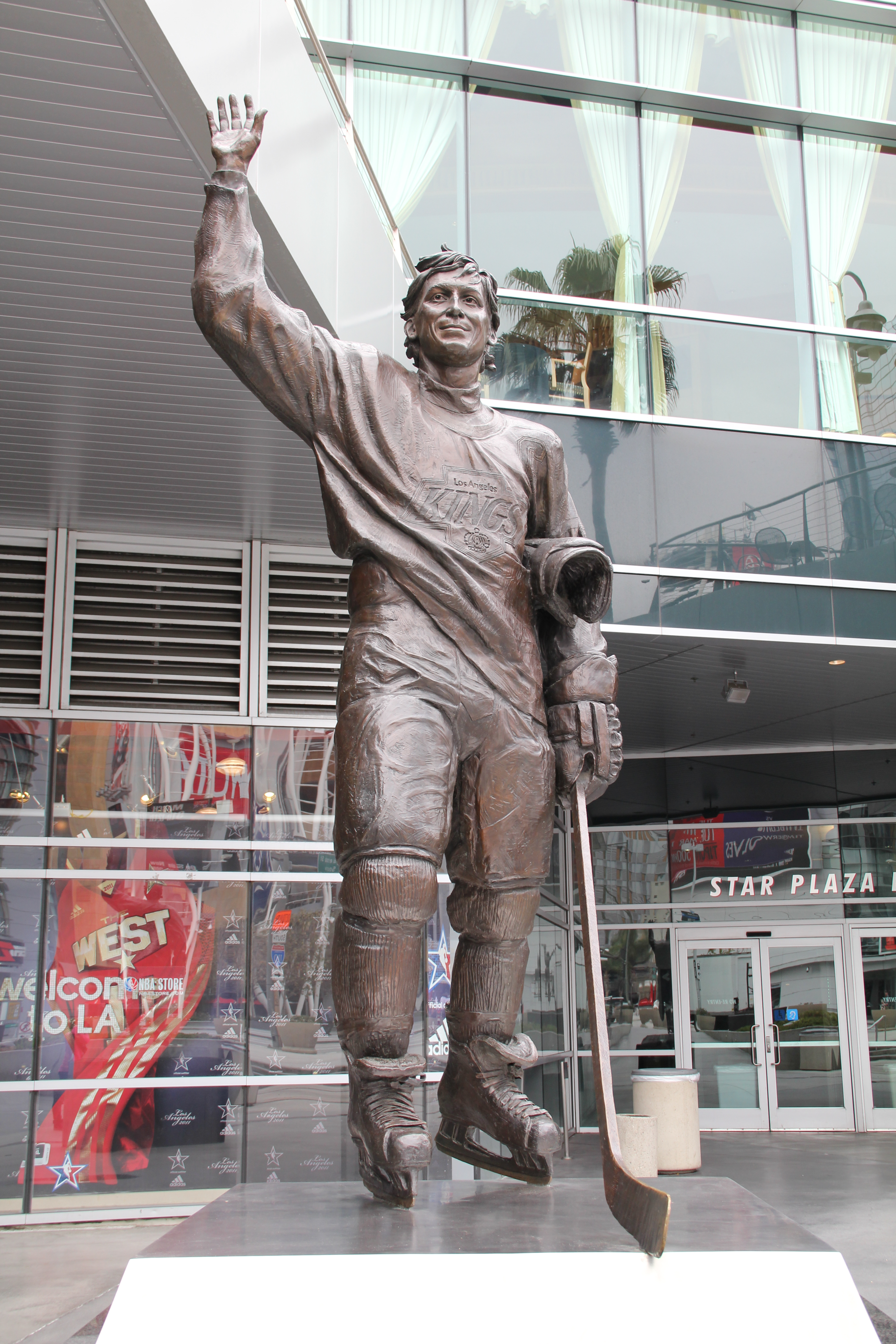 Wayne Gretzky statue at Star Plaza, downtown LA, USA